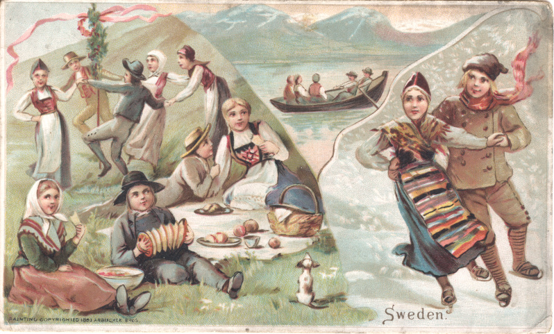 Persistent URL: Subject (TGM): Ethnic groups; Clothing & dress; Costumes; Ice skating; Dance; Dancers; Musical instruments; Accordions; Animals; Pets; Dogs; Picnics; May poles; Coffee industry; Message: Keywords